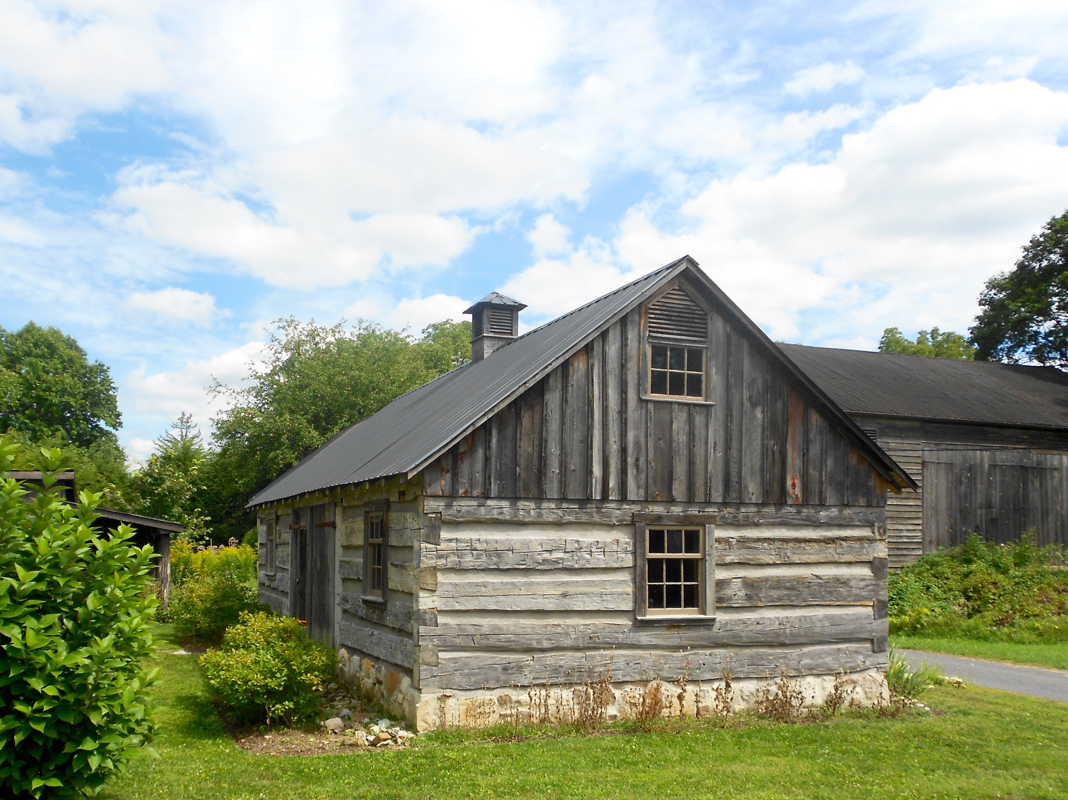 Log (not plank) house in the Aaronsburg Historic District, listed on the NRHP on September 2, 1980 (#80003452). On Pennsylvania Route 45 in Aaronsburg, Haines Township, Centre County, Pennsylvania. 40°54′02″N 77°27′10″W